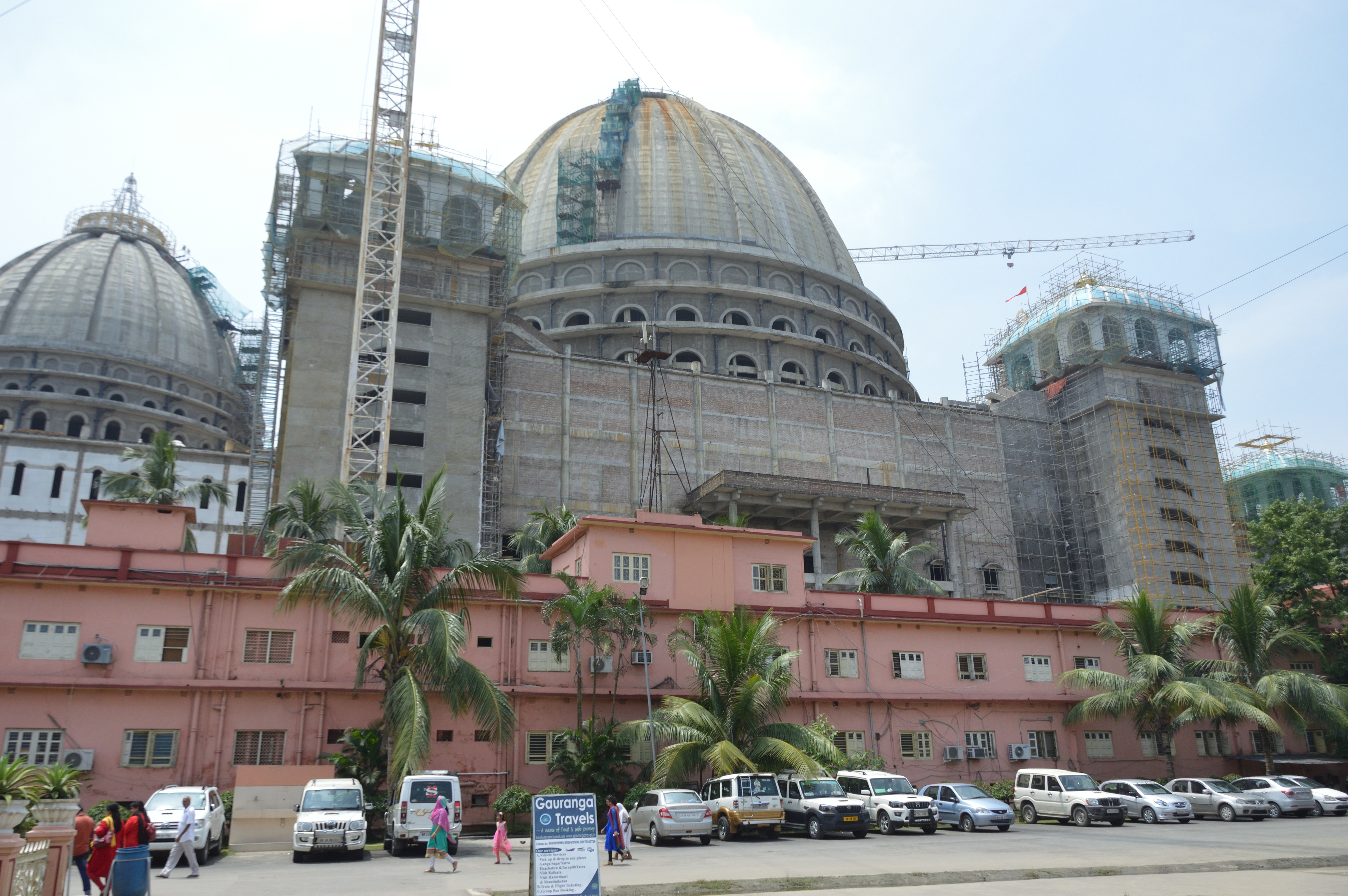 Photographed Sreemayapur, district Nadia, West Bengal.